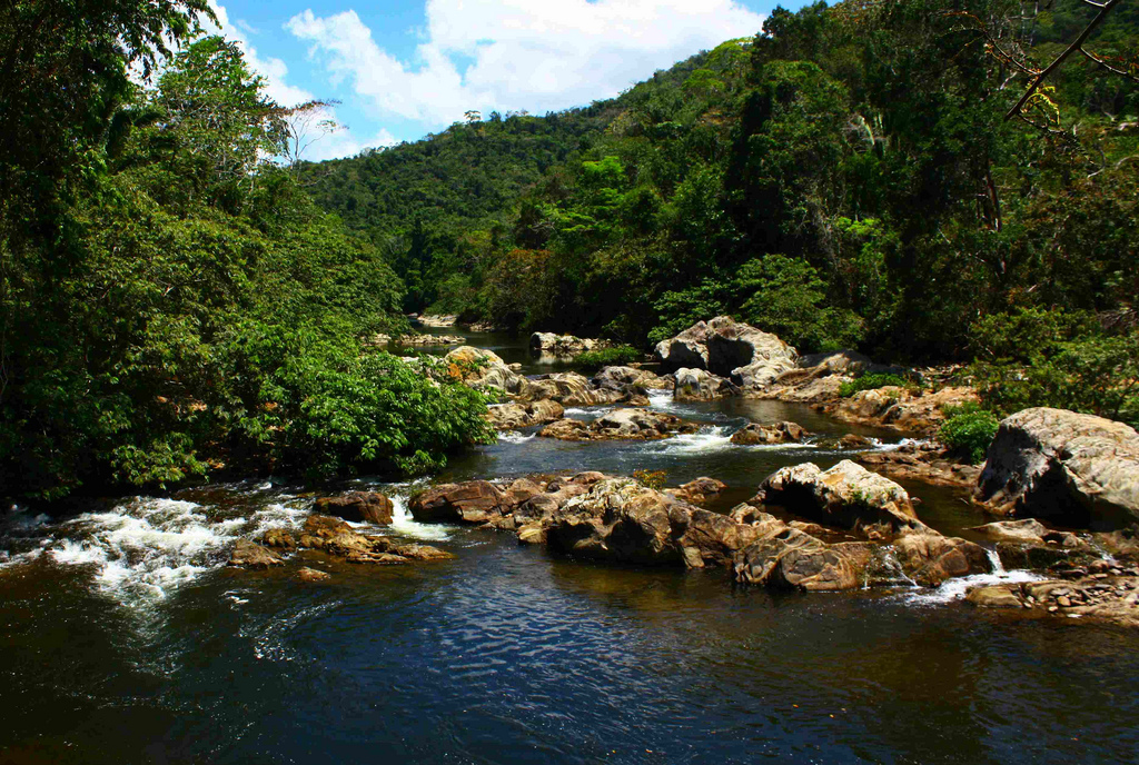 Great spot Licensing